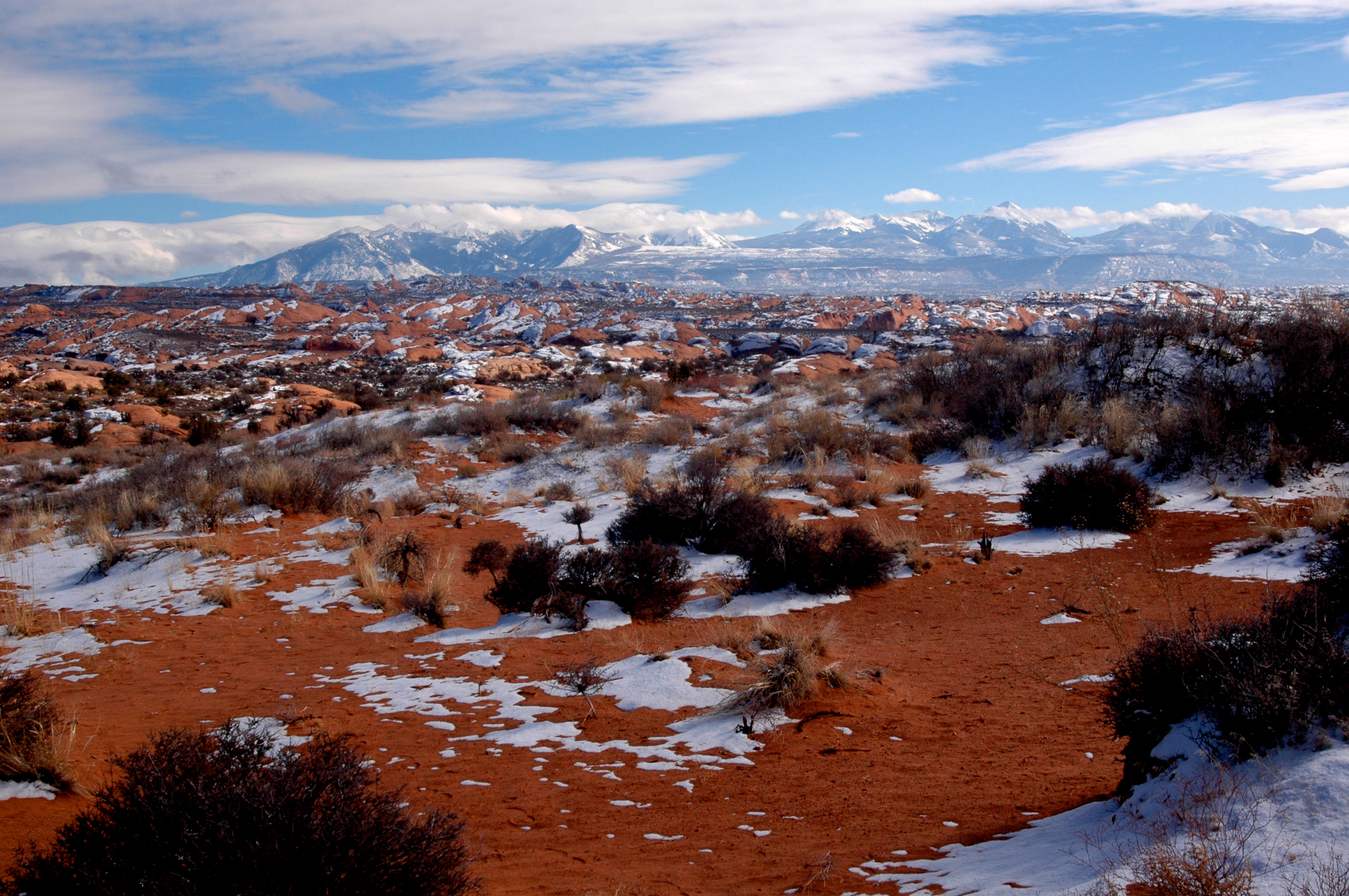 Arches National Park, Petrified Dunes